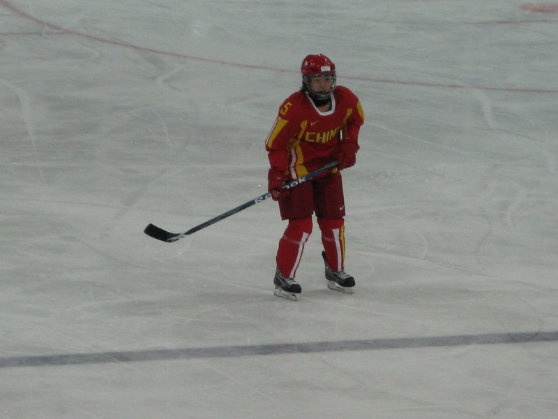 China defenseman Lou Yue watches the play against Russia during the 2010 Winter Olympics